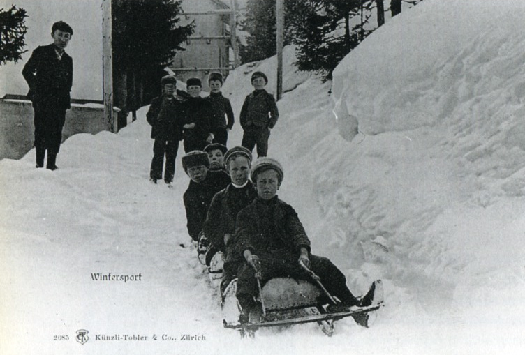 kids in bobsleigh, Arosa/Switzerland